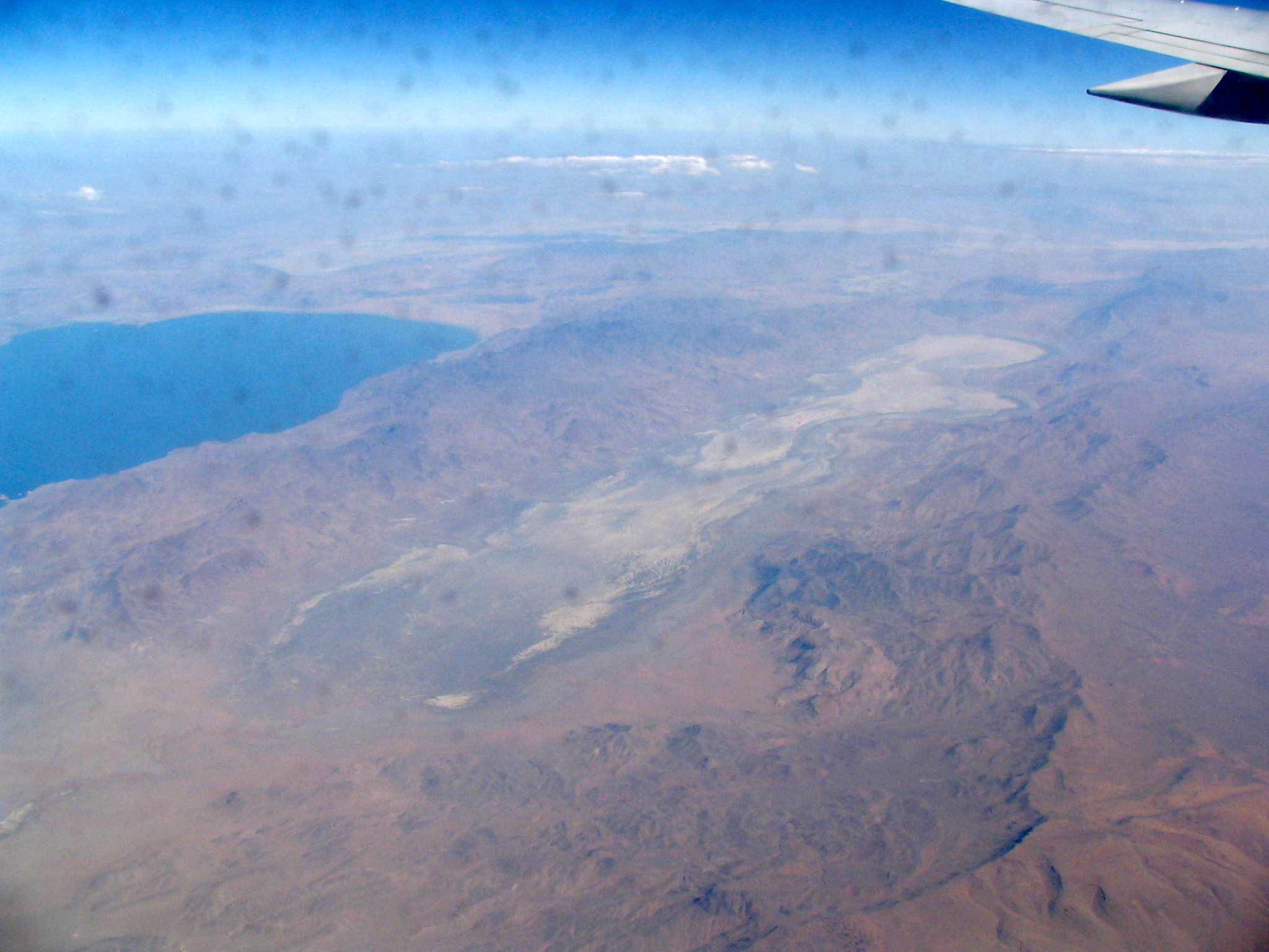 Winnemucca Lake is just next door to Pyramid Lake (the blue lake to the left). It dried out in the 1930's due to human activities upstream from it.